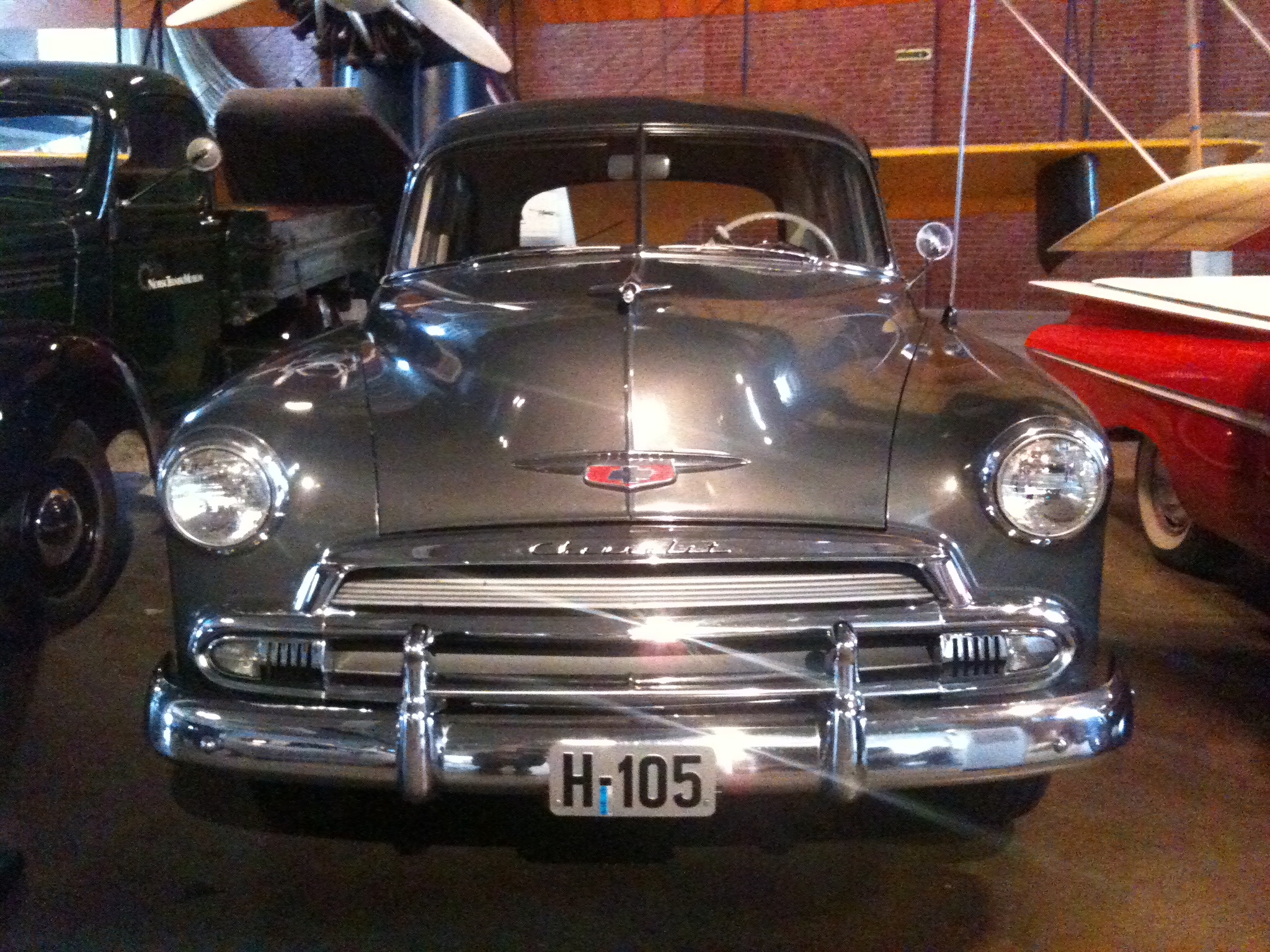 Photo taken in Norsk Teknisk Museum, Oslo (Norway).